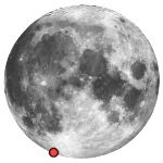 Description: Location of the Bailly crater on the Moon. Source: This is a modified version of the photo obtained from the NASA Planetary Photojournal. It was modified by RJHall. Width: 150 pixels Height: 150 pixels